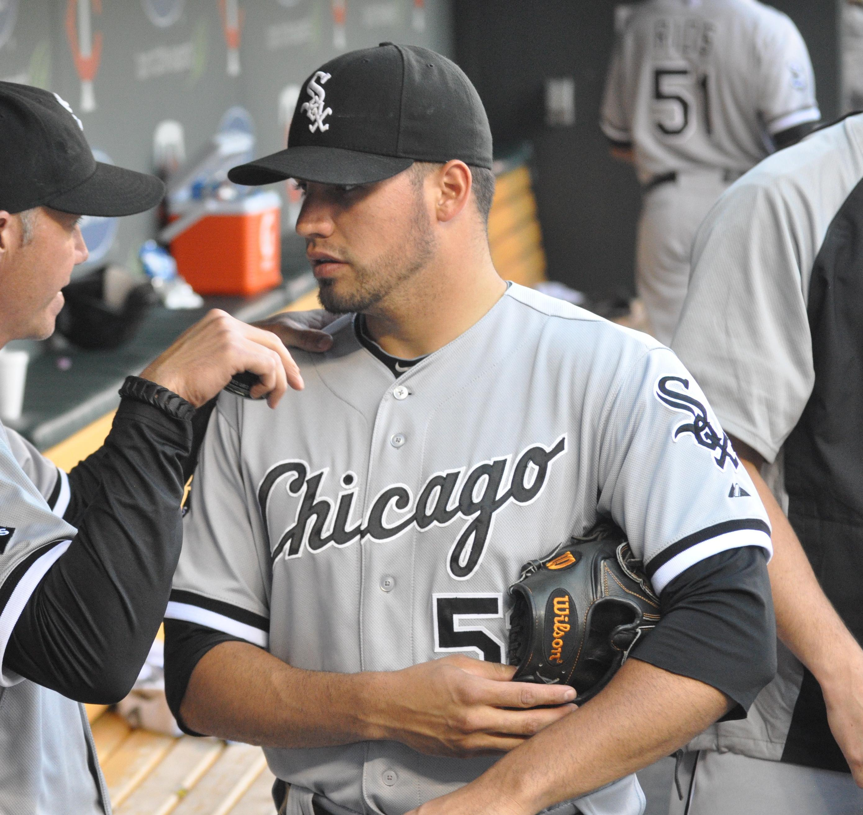 Hector Santiago